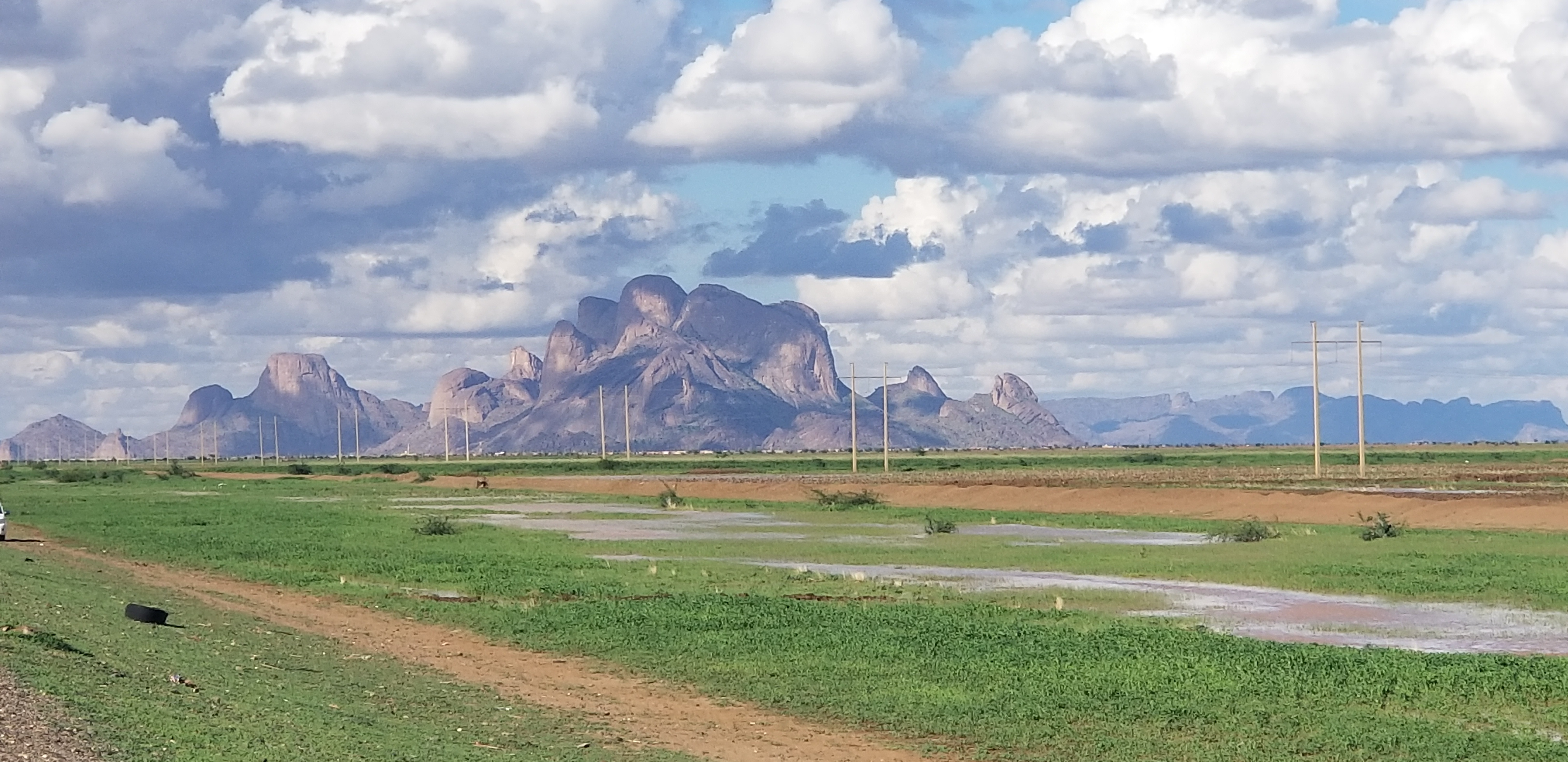 great view of TOTEEL mountain in raining season This is an image with the theme "Africa on the Move or Transport" from: Sudan